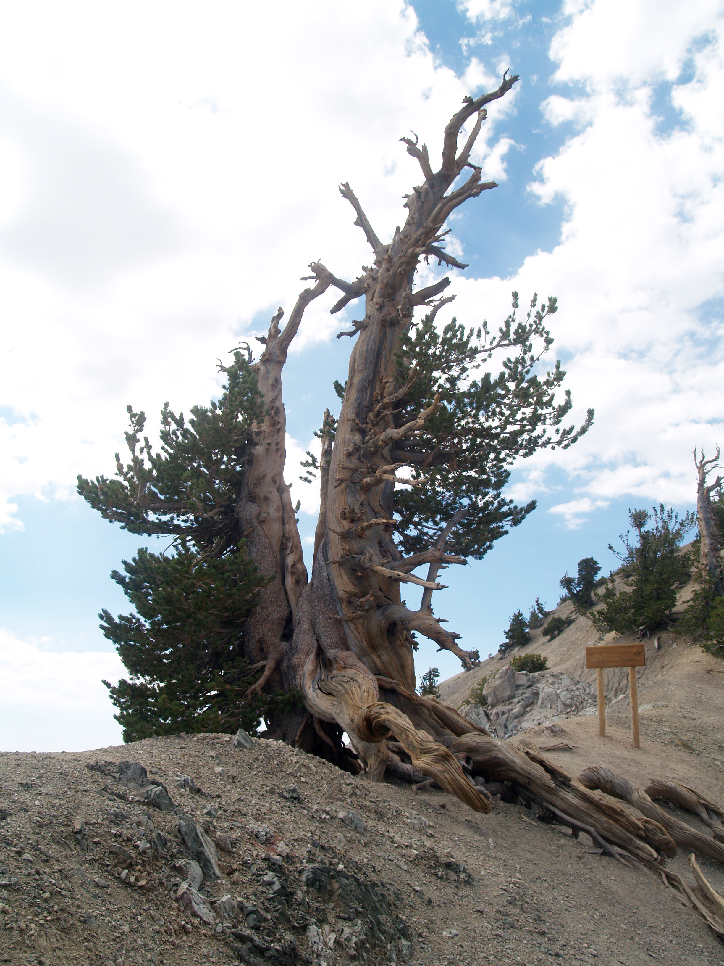 This 1,500 year old Limber Pine (Pinus flexilis) has been named the Wally Waldron Tree, apparently the oldest tree in the San Gabriel Mountains, southern California. "As compensation for Wally Waldron going through life being called Wally Waldron. Apparently he was some guy who did a lot of volunteering for the Boy Scouts. Actually, I think naming an old distinctive tree after a guy is a pretty nice touch; sure is better than naming a freeway intersection after a guy (as they do here in California)."